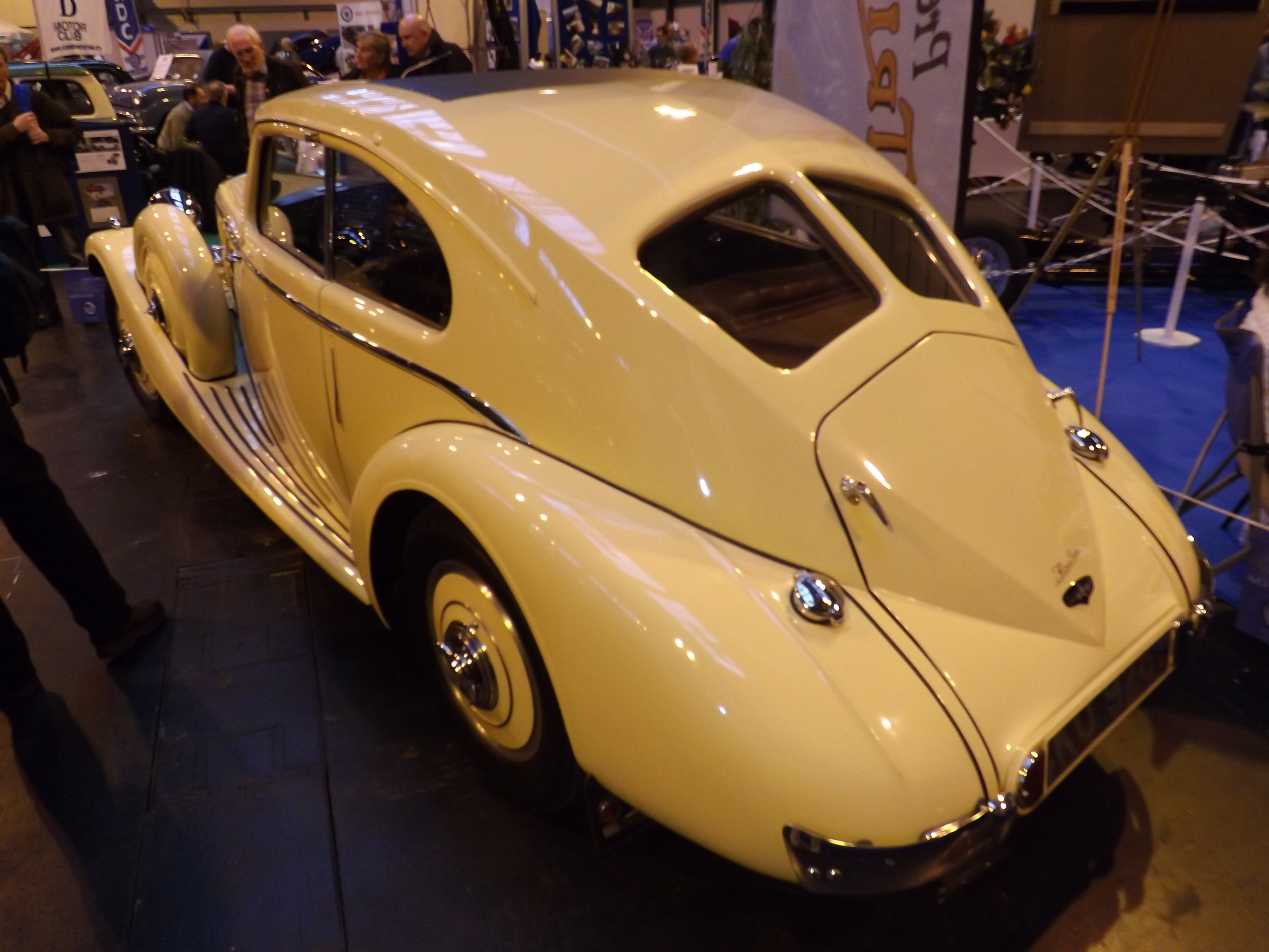 Lovely art-deco Triumph from the late 1930s.